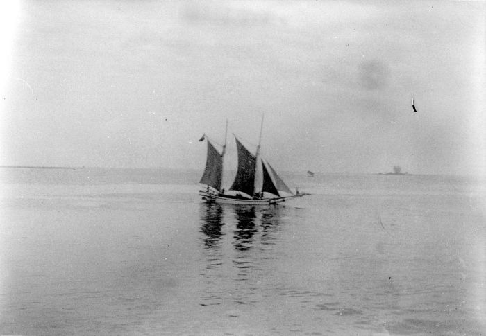 A pinisi sailing at sea near Makassar